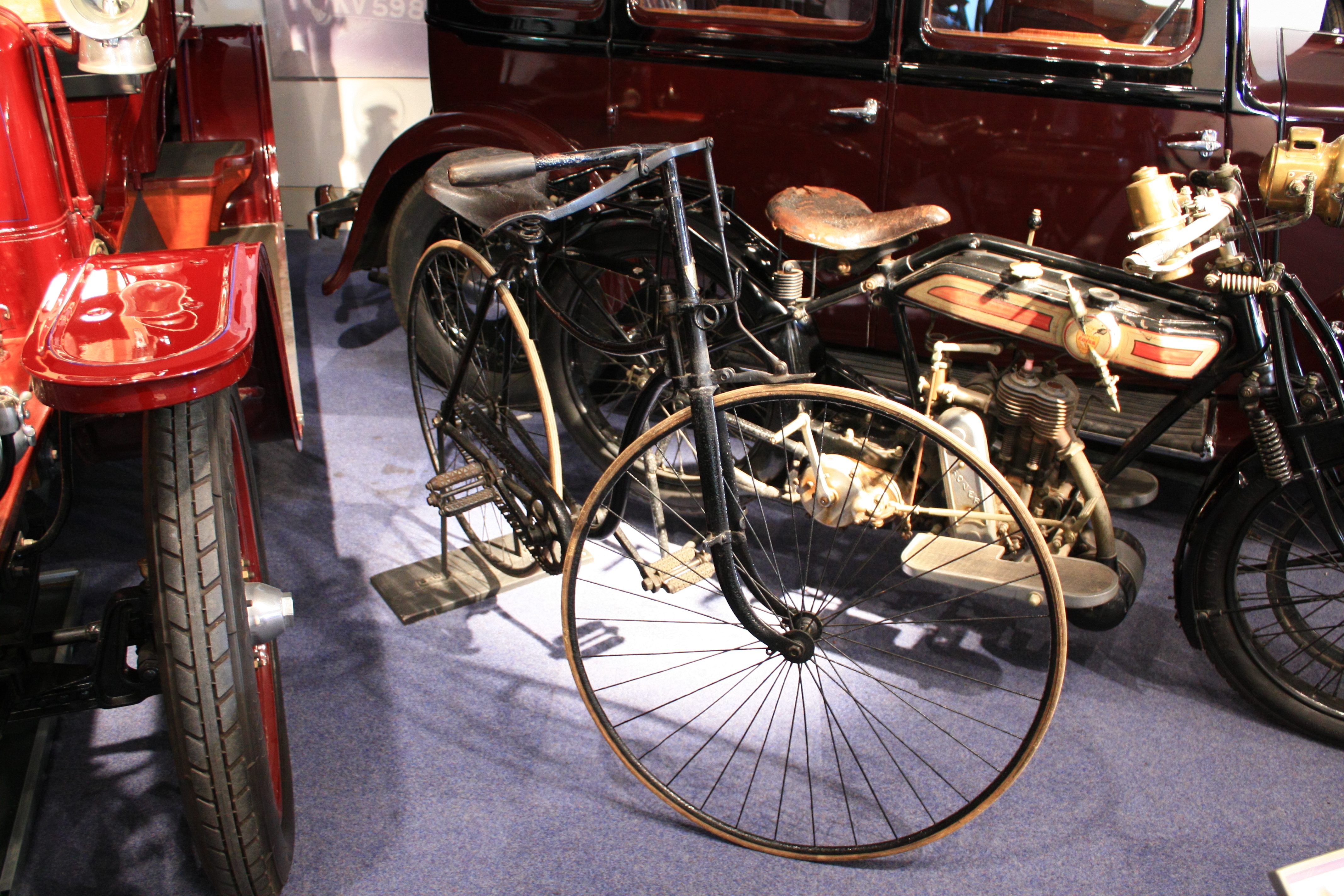 "This bicycle is very important. It was designed by J.K. Starley and built at the Searley and Sutton Company's factory in West Orchard, Coventry, where the Debenhams store stands today (2008). It is called a 'Safety Cycle' because it was safer to ride than the larger Penny Farthing cycles that were used by most cyclists of the time. It is important because of its shape and some of the improvements Starley added to it. He had developing safety cycles during the 1880s. By the end of the decade he had designed a bicycle that was better than all others available at the time. It was successful because of the 'diamond' shaped frame, pedals and chain to drive the back wheel. The saddle was in the best riding position, with steering through the handlebars to the front wheel. These are all things we still have on bicycles today. This Rover Safety bicycle became the pattern for most modern examples. Do you recognize anything on this bicycle that you still have on your own bike?" Coventry Transport Museum, UK. 2009